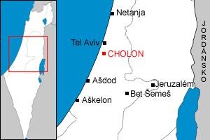 Localization of Holon within Israel.